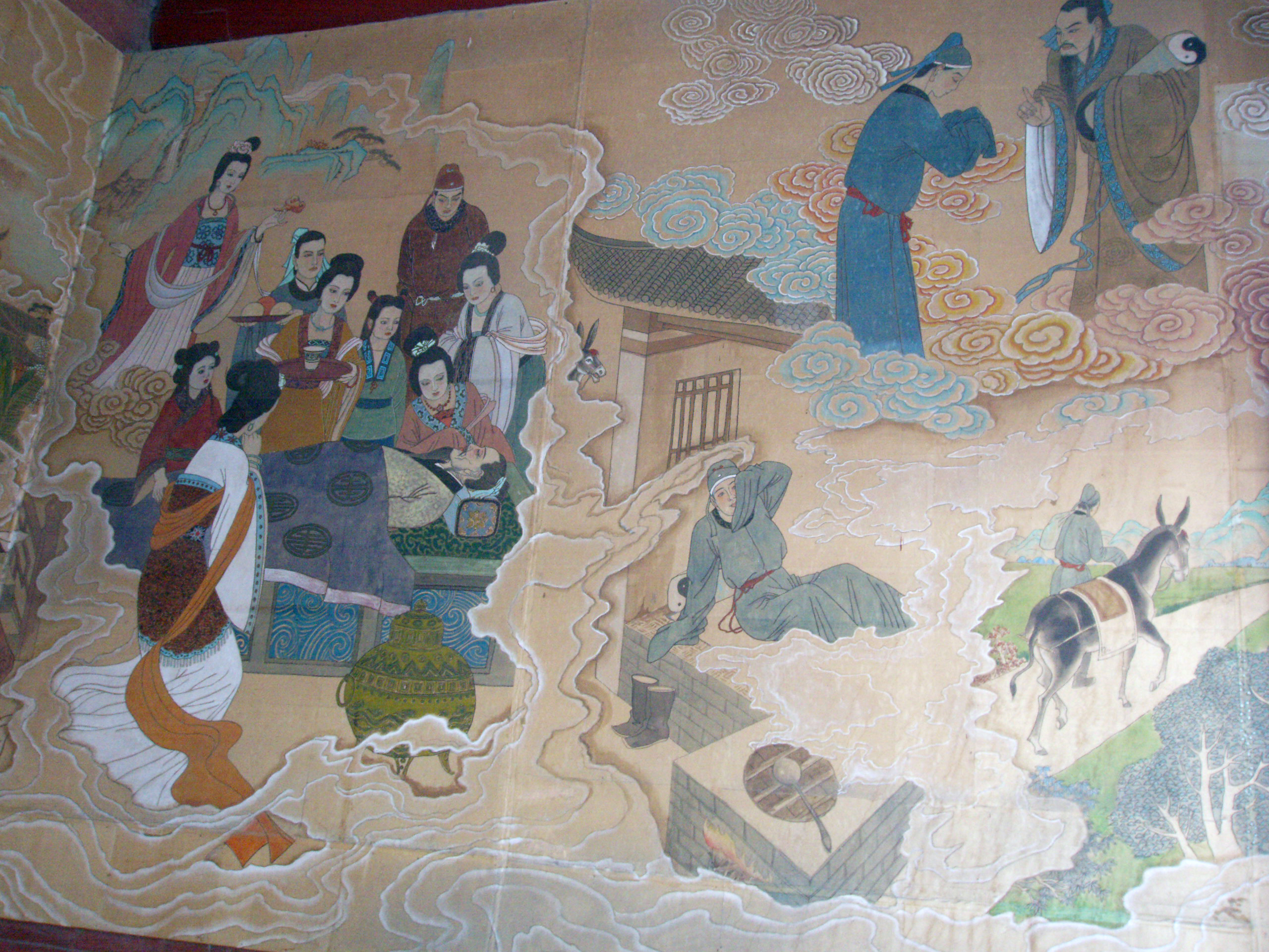 The frescoes about a Chinese ancient fable in Huangliangmeng, Handan, Hebei, China.